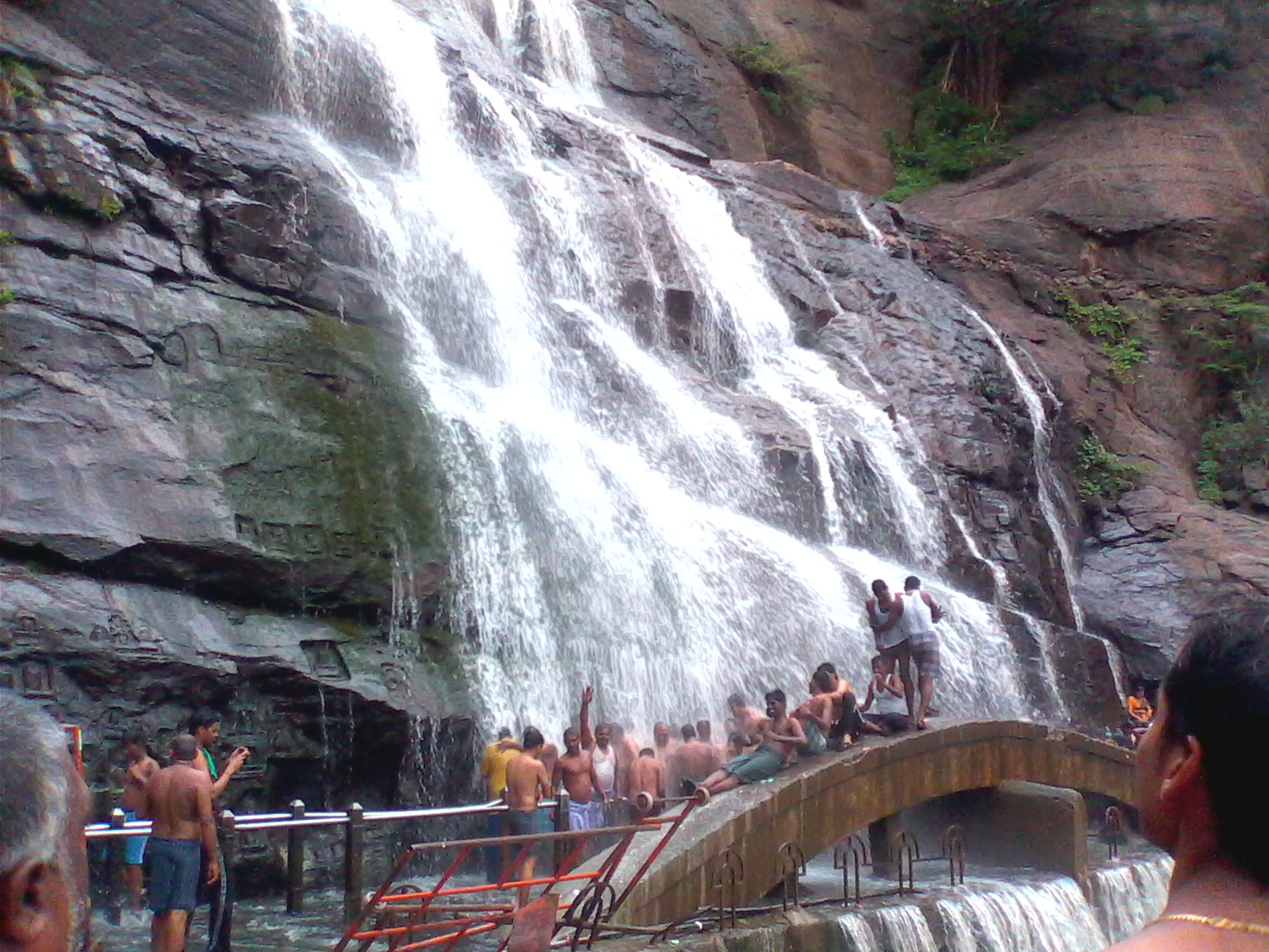 View of courtallum main falls